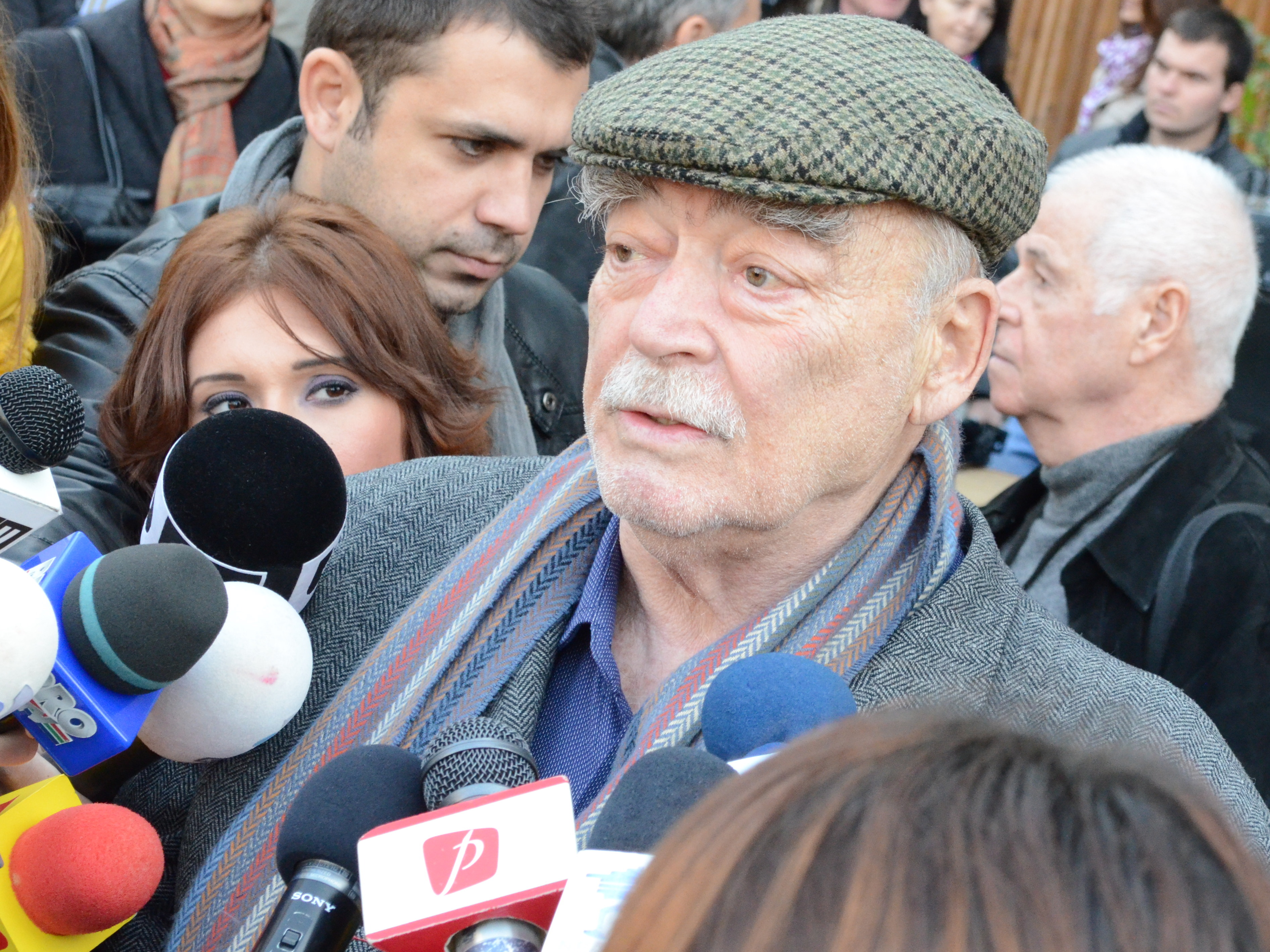 Mircea Albulescu receives a star in the Romanian Walk of Fame